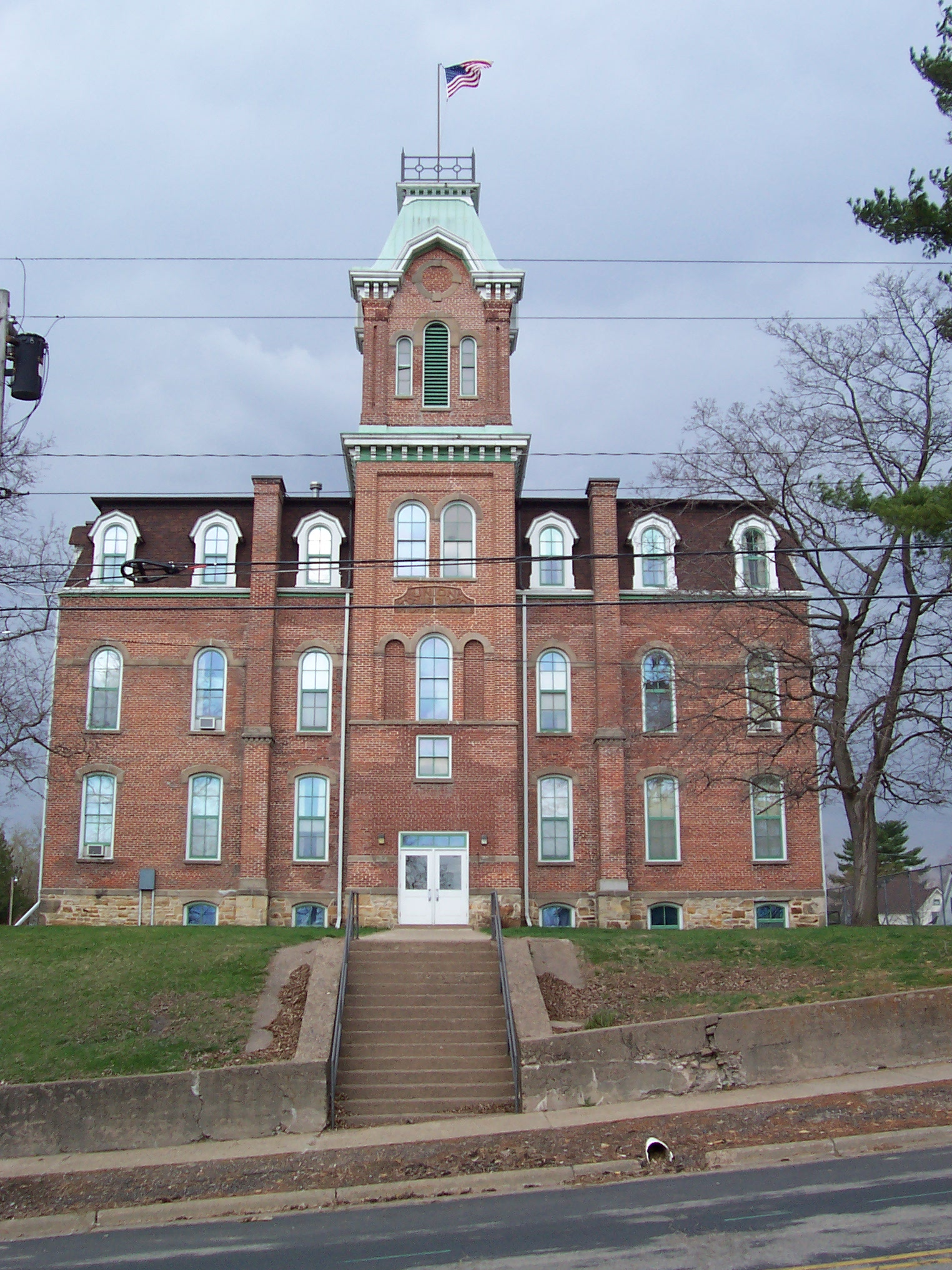 Picture from the Old High School at 223 N 4th St. in Black River Falls, Wisconsin.